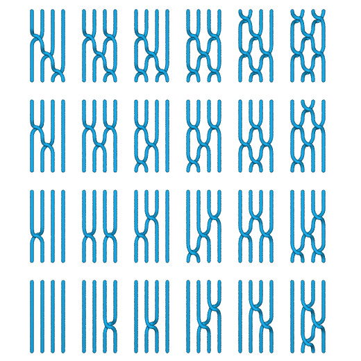 Braid theory: sample of permutation group (4) as braid